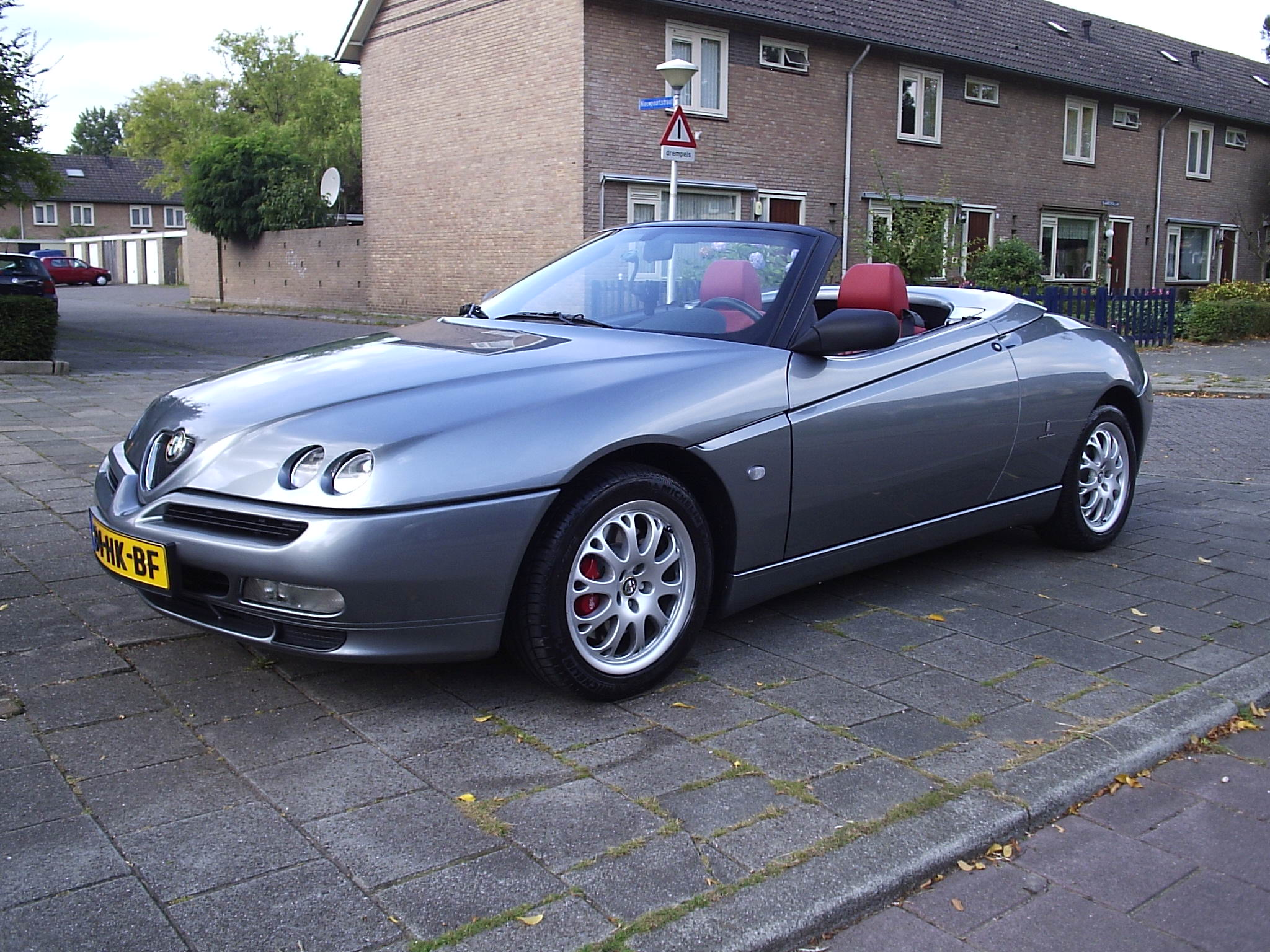 Description Alfa Romeo Spider 3.0 24v 2002 Color: Grigio Meteora Wheels: Stock 16 inch Tires: Stock 205/50 F&R Source Own Work Date 18 June 2006 Author: Myself Permission I hereby renounce all rights to this image.